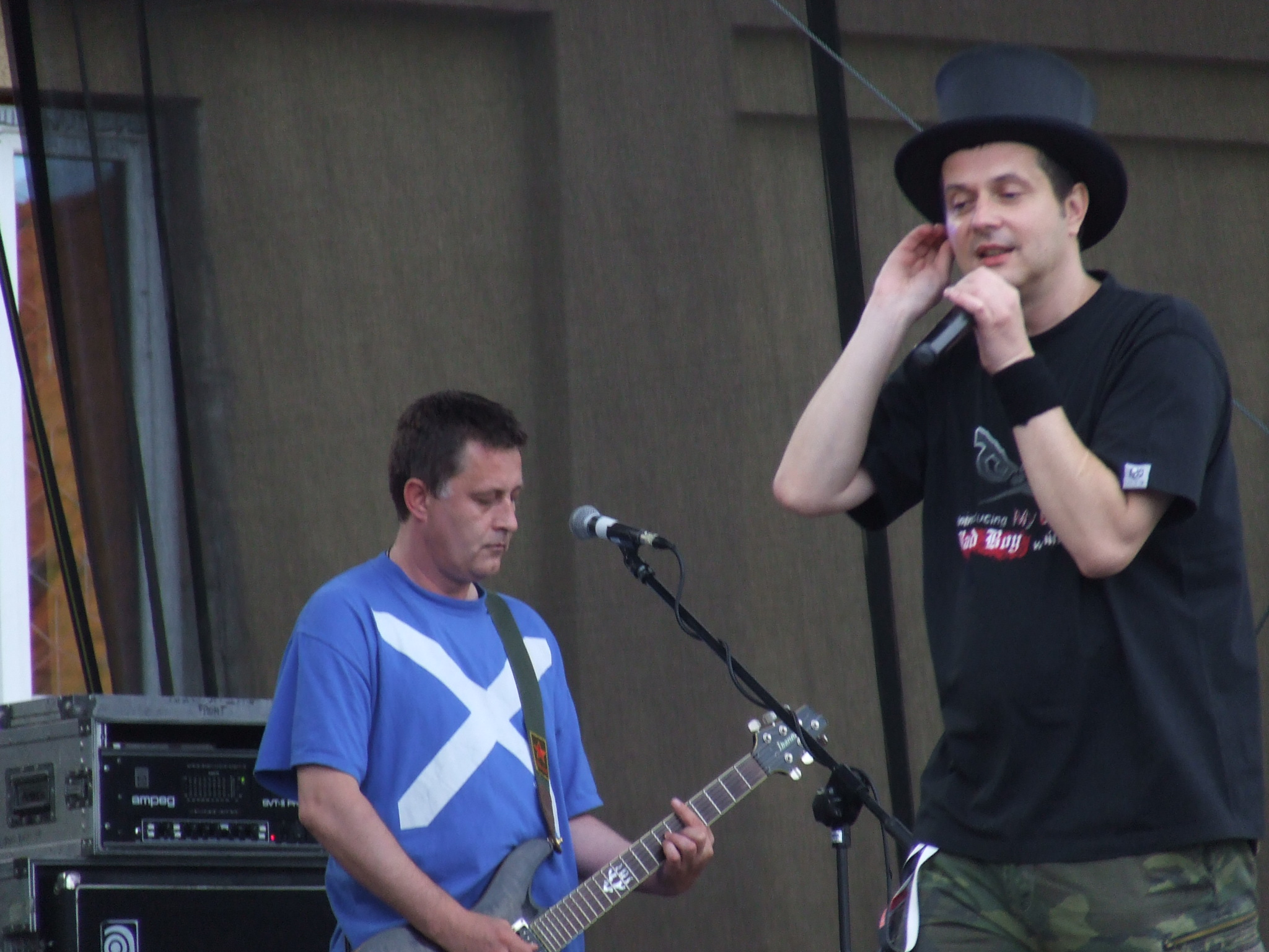 Pidżama Porno (Andrzej Kozakiewicz and Krzysztof Grabowski) at Union Of Rock Festival 2007.